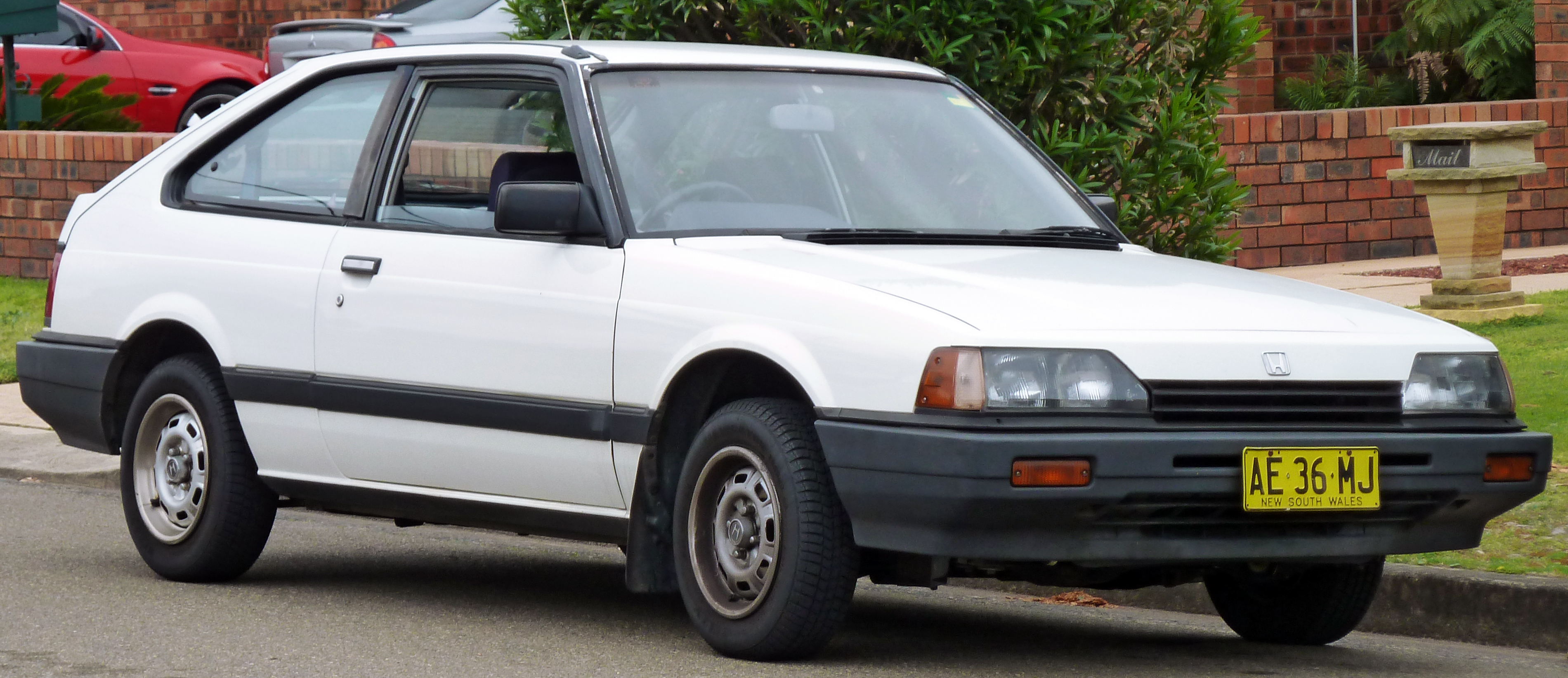 1984–1985 Honda Accord hatchback. Photographed in Sans Souci, New South Wales, Australia.